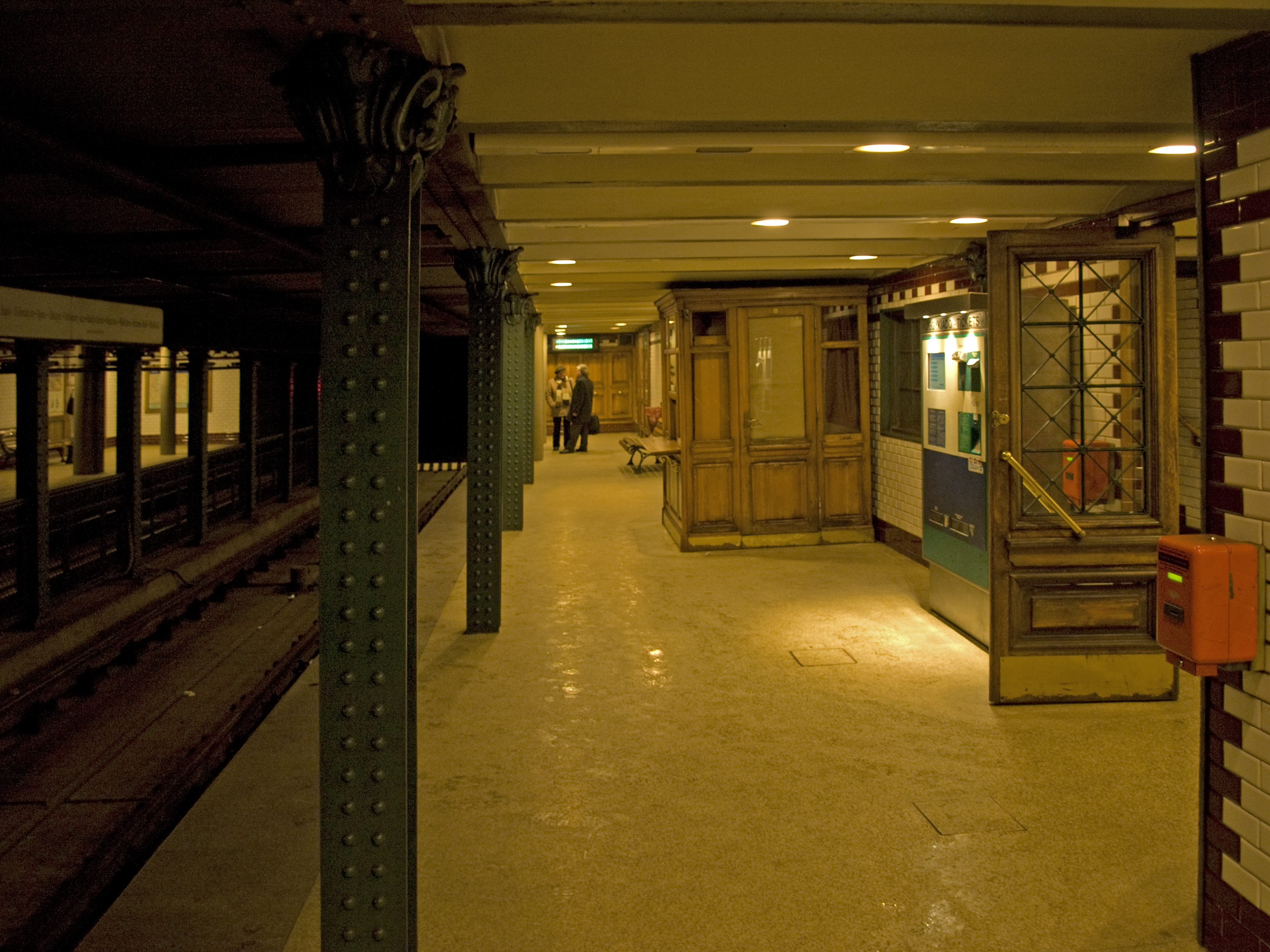 Kodály körönd station, eastbound platform, Budapest Metro